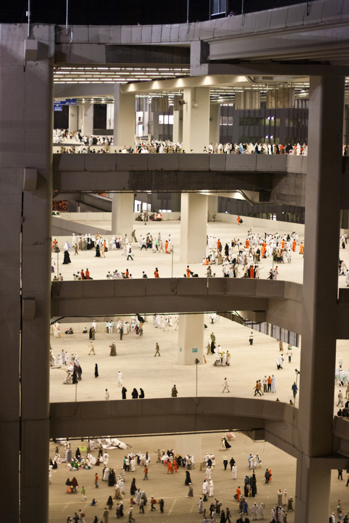 View on the Jamarat Bridge